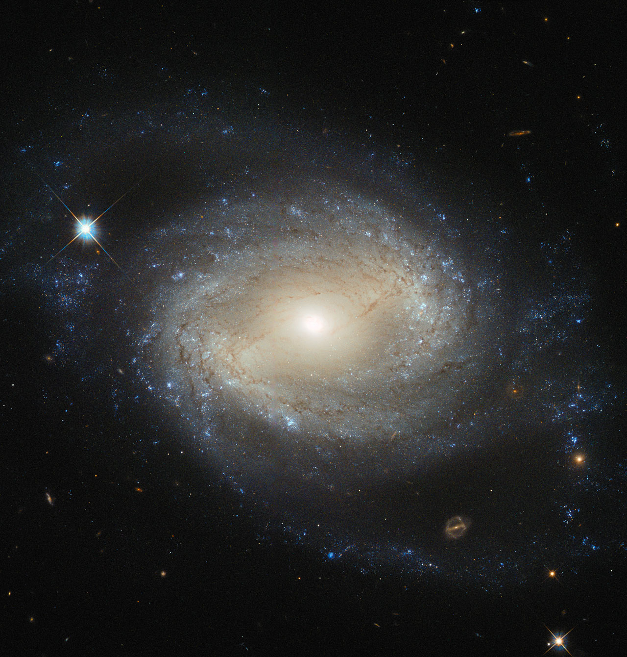 NGC 4639 is a beautiful example of a type of galaxy known as a barred spiral. It lies over 70 million light-years away in the constellation of Virgo and is one of about 1500 galaxies that make up the Virgo Cluster. In this image, taken by the NASA/ESA Hubble Space Telescope, one can clearly see the bar running through the bright, round core of the galaxy. Bars are found in around two thirds of spiral galaxies, and are thought to be a natural phase in their evolution. The galaxy’s spiral arms are sprinkled with bright regions of active star formation. Each of these tiny jewels is actually several hundred light-years across and contains hundreds or thousands of newly formed stars. But NGC 4639 also conceals a dark secret in its core — a massive black hole that is consuming the surrounding gas. This is known as an active galactic nucleus (AGN), and is revealed by characteristic features in the spectrum of light from the galaxy and by X-rays produced close to the black hole as the hot gas plunges towards it. Most galaxies are thought to contain a black hole at the centre. NGC 4639 is in fact a very weak example of an AGN, demonstrating that AGNs exist over a large range of activity, from galaxies like NGC 4639 to distant quasars, where the parent galaxy is almost completely dominated by the emissions from the AGN.